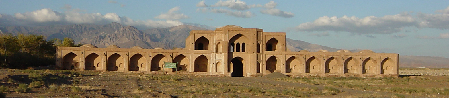 Mehr caravanserai in Sabzevar, Iran.